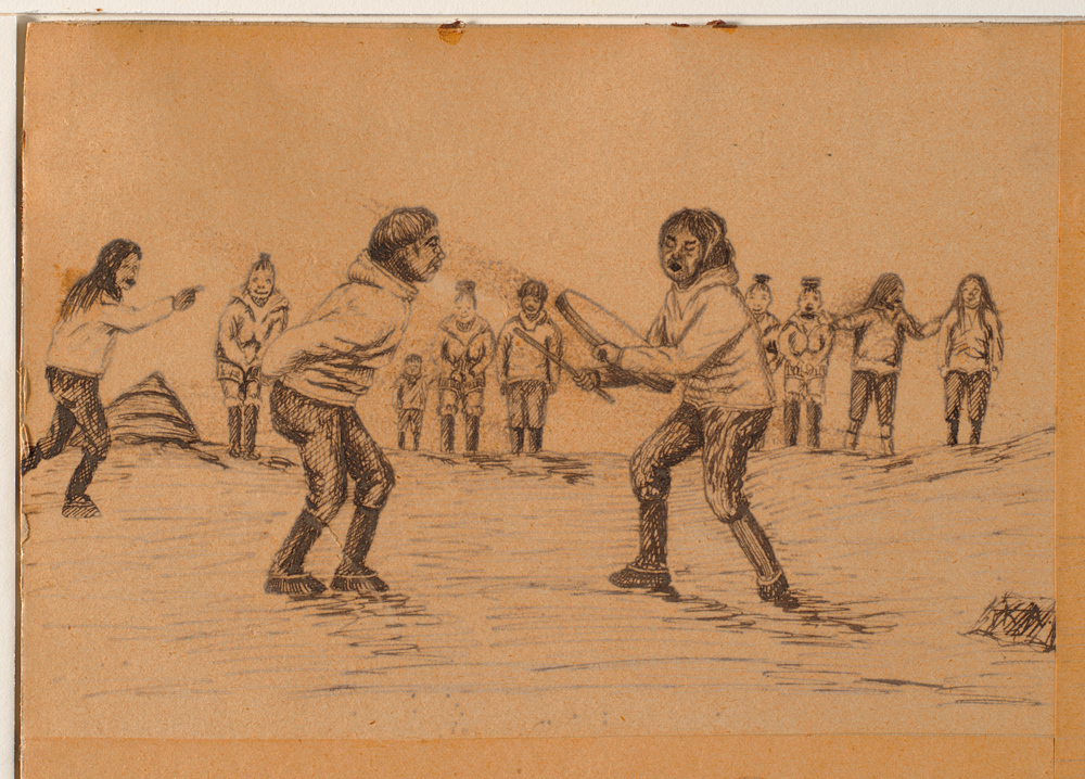 Traditional Greenlandic drum dance